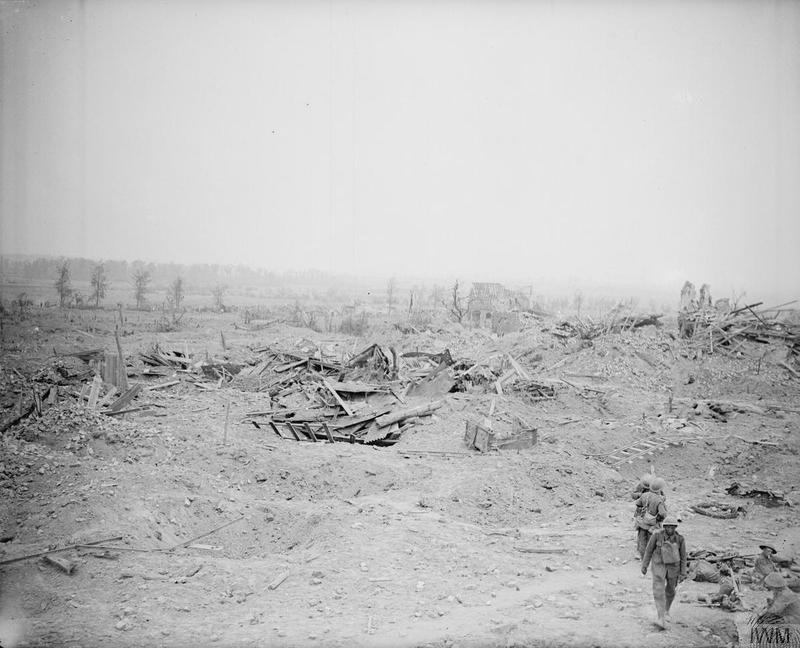 The Battle of Messines, June 1917 Wytschaete, captured by the 16th (Irish) and 36th (Ulster) Division on 7 June. 10 June 1917.